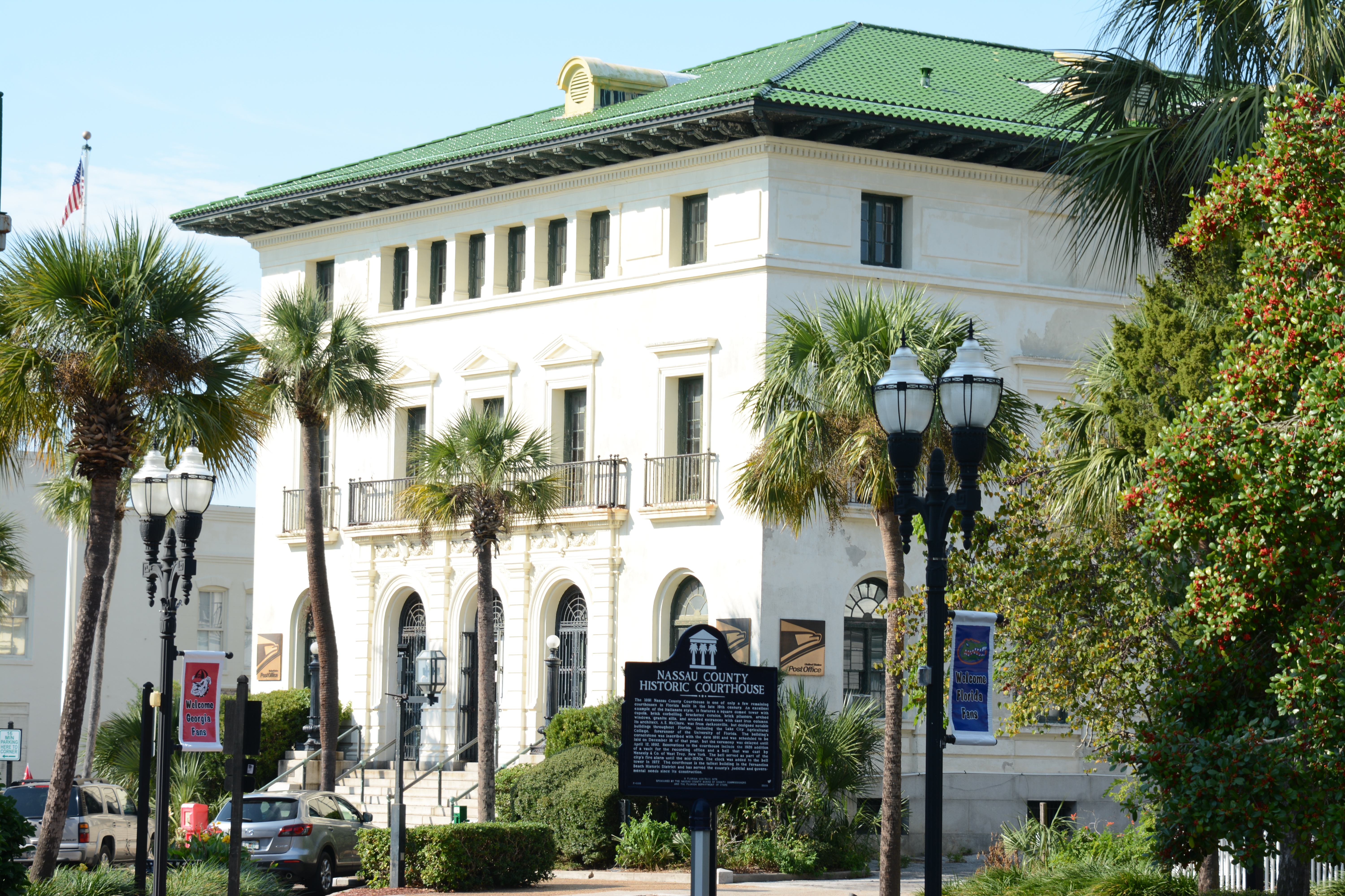 Historic Post Office and Customs House in Fernandina Beach, Florida, US (The historical marker is for the courthouse across the street.)